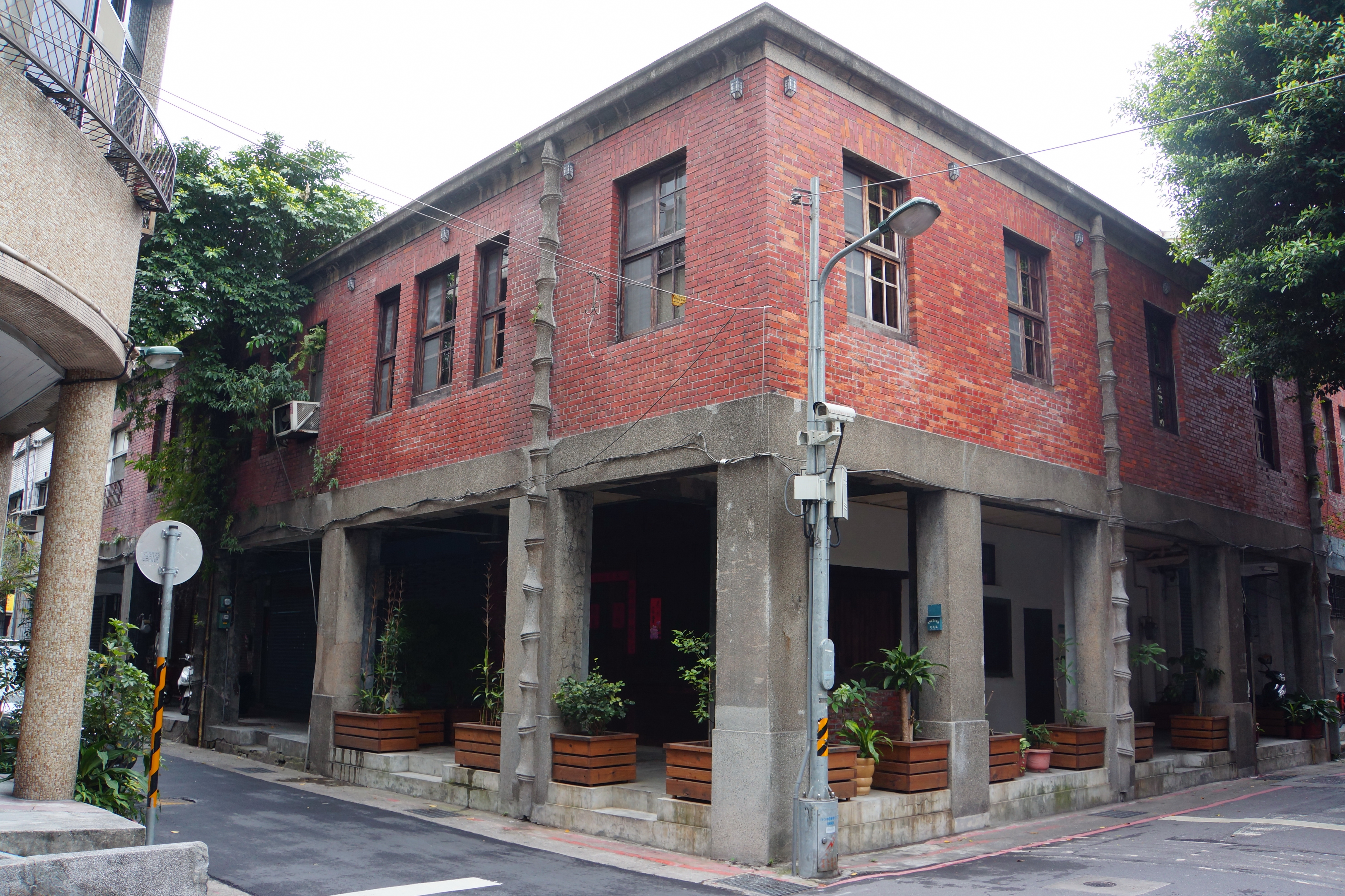 吳文秀故居 Former Residence of Wu Wenxiu